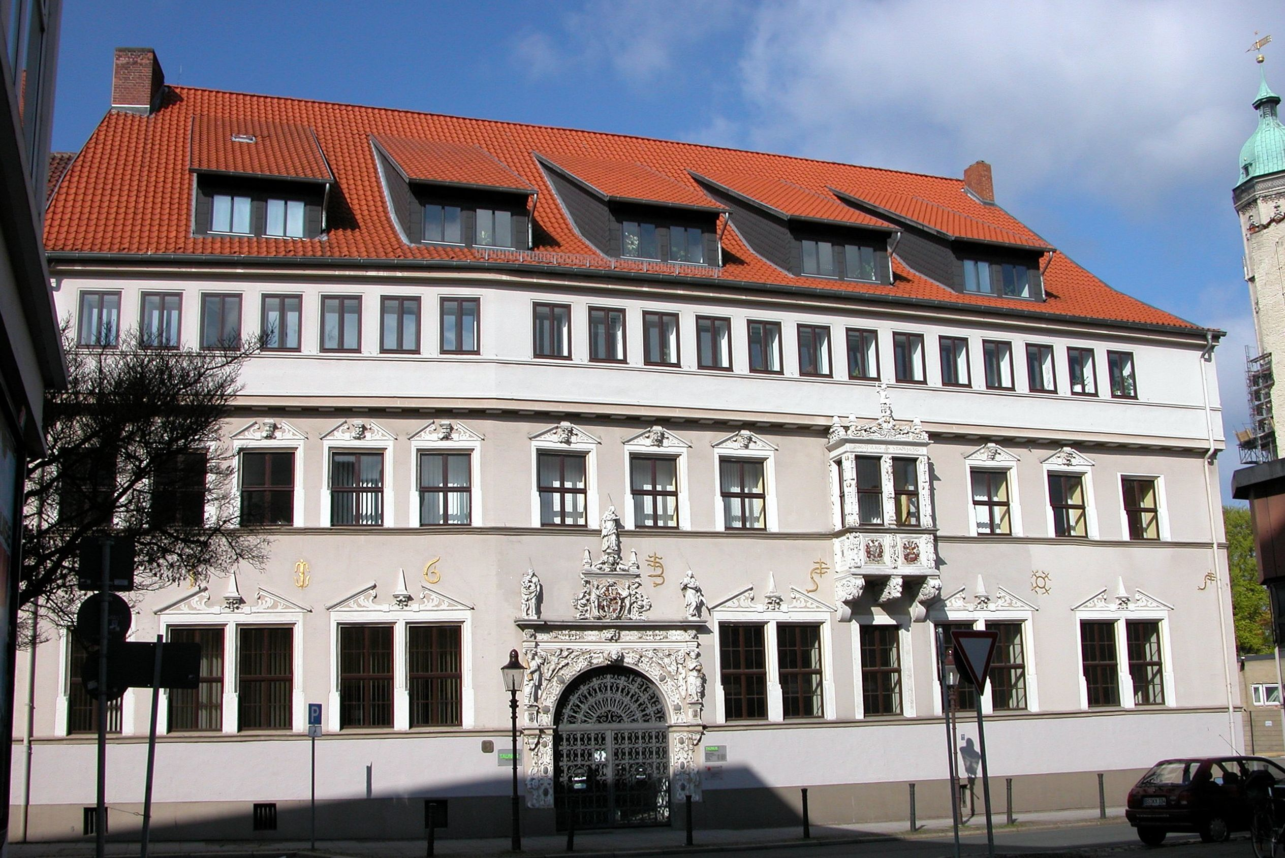 Brunswick, Germany: Achtermann’s House seen from the east.